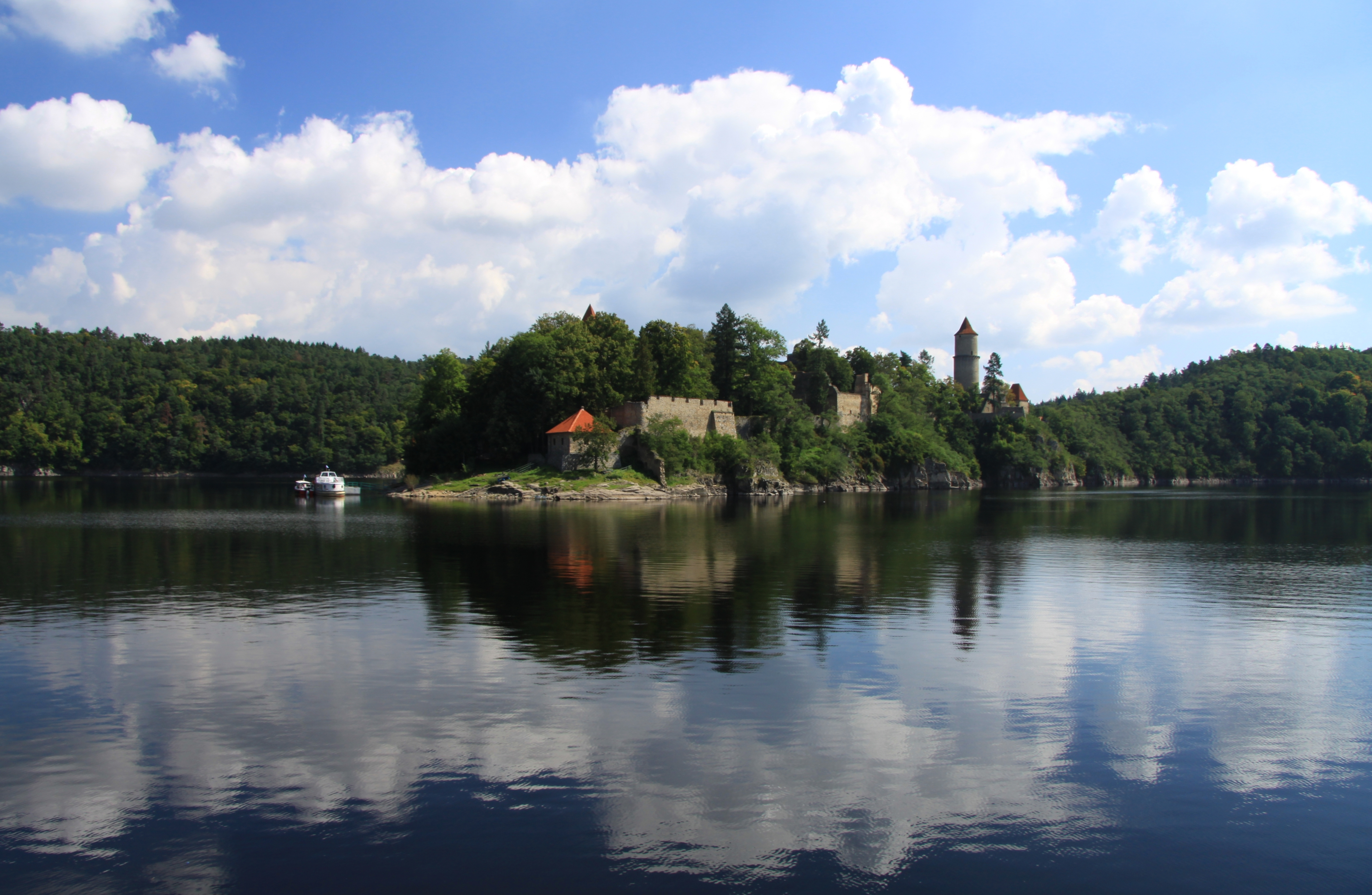 Zvíkov Castle from natural monument Kopaniny in Písek District, Czech Republic.